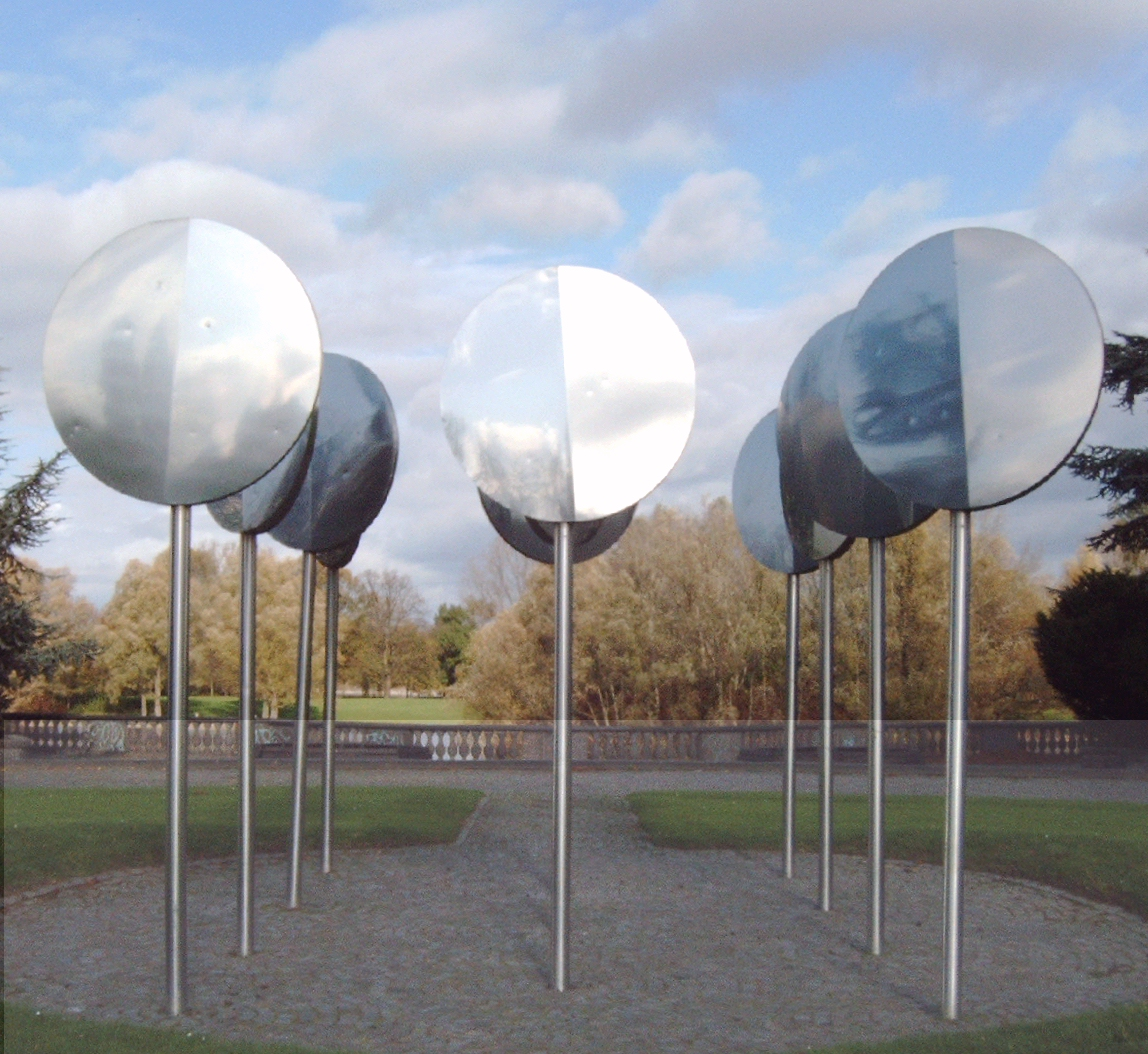 „Kinetisches Windspiel (Kunsthain)“ (1978/79) in the Bonner Rheinaue Leisure Park.